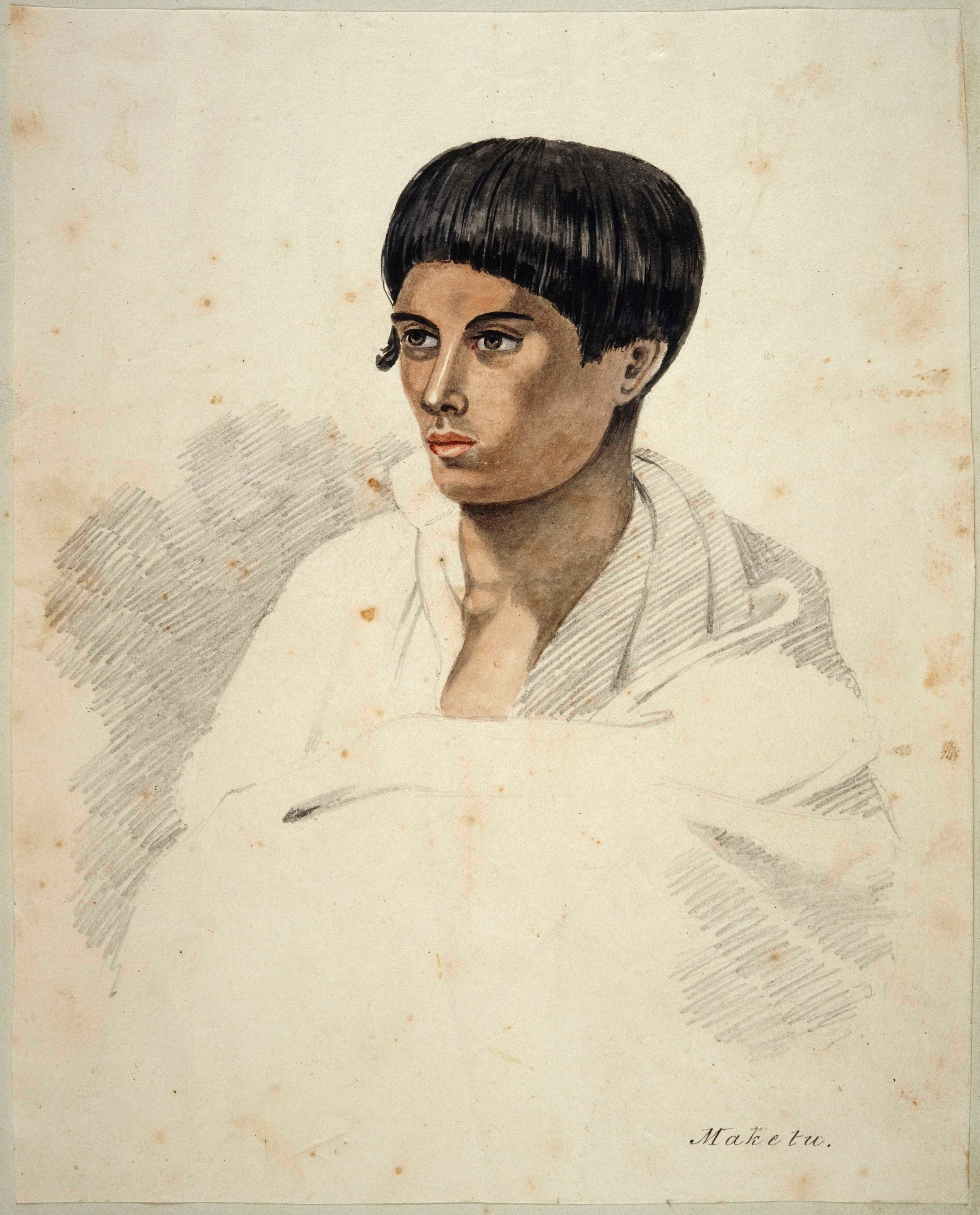 Head and shoulders portrait of a young Maori man, wrapped in a blanket. He was Maketu Waretotara, the son of Ruhe, a Waimate chief